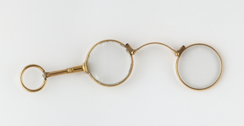 Lorgnette (hand held) spectacles.